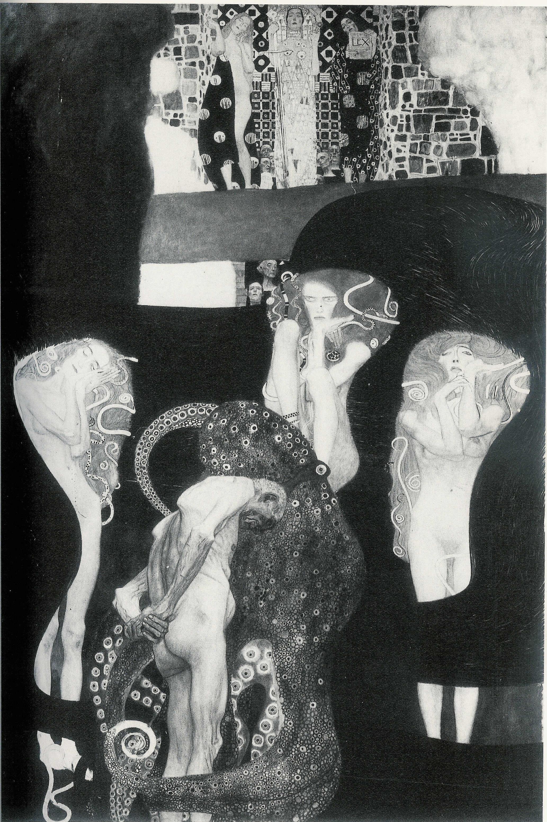 Fakultätsbild "Jurisprudenz", ursprünglich gemalt für den Festsaal der Universität Wien, Original verbrannt 1945 Painting "Jurisprudence" originally created for the ceremonial hall of Vienna university, original burnt in 1945